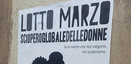 Global Women's Strike - Turin, 8 March 2017 (#nonunadimeno)